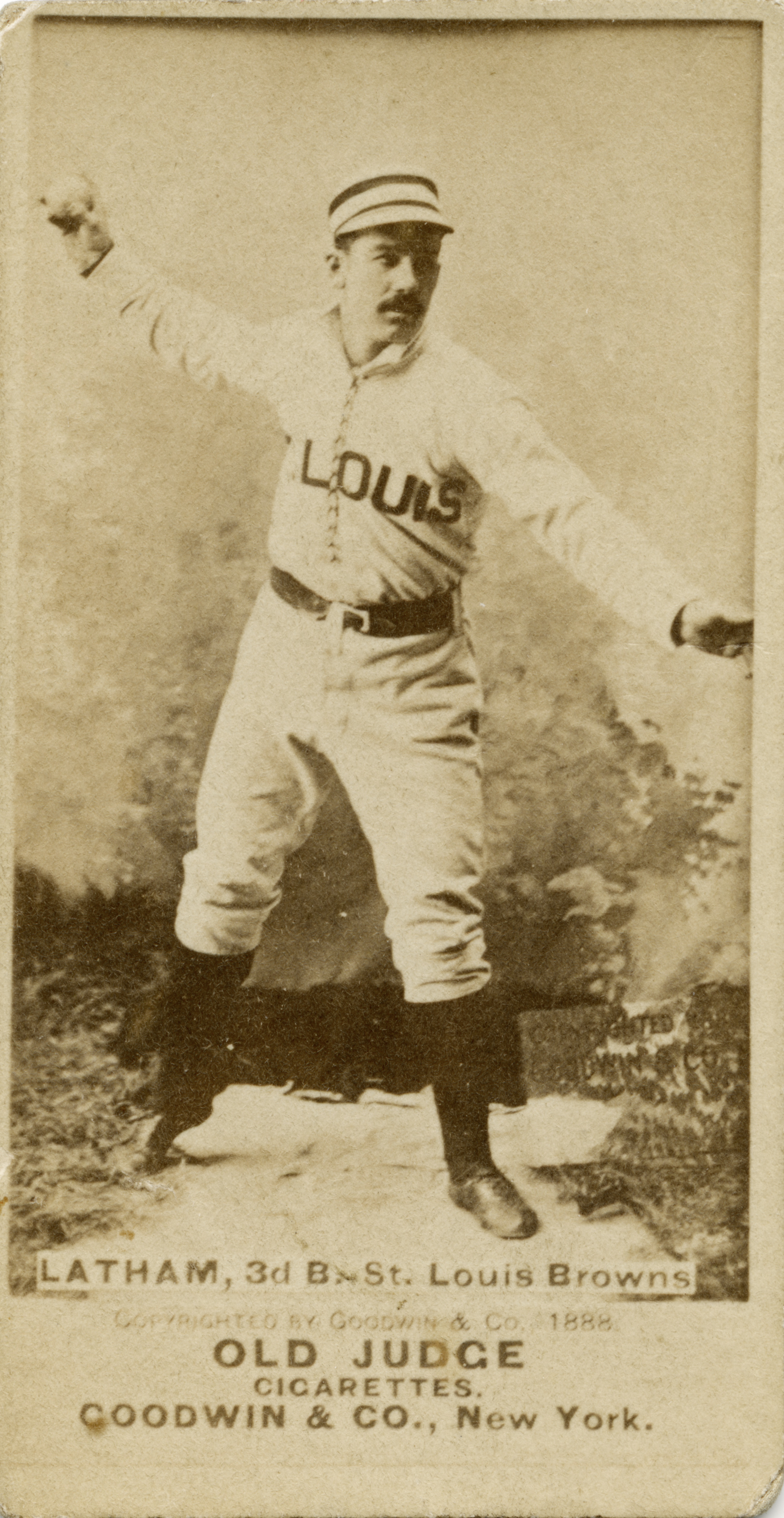 Vertical, sepia photograph on a baseball card of Latham. He is wearing a white uniform with St. Louis across the chest. His socks, shoes, and belt are a dark color. His hat is striped. He has a mustache. He is standing in a position as though he is going to throw the ball in his right hand. Below the image reads "LATHAM, 3rd B. St. Louis Browns. OLD JUDGE Cigarettes. Goodwin & Co., New York." Title: Old Judge Goodwin and Company baseball card for St. Louis Brown's Arlie Latham.